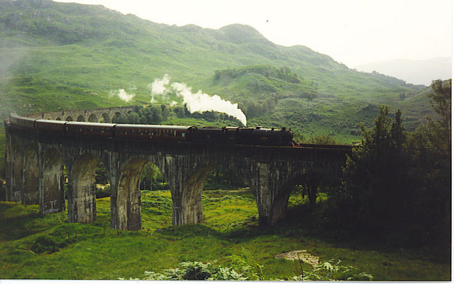 "The Jacobite" on Glenfinnan Viaduct. Steam train from Fort William en route for Mallaig, runs in summer, catering for tourists who enjoy the magnificent lochs and mountains scenery.